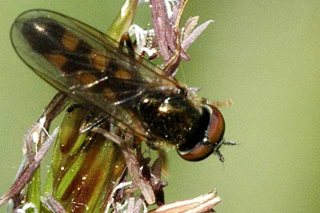 Platycheirus clypeatus from Commanster, Belgian High Ardennes .